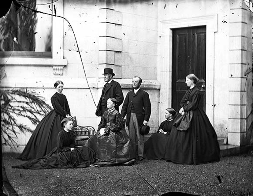 Dillon family group including Lord Clonbrock and Lord and Lady Clanmorris, gathered outside Clonbrock House, Ahascragh, Co. Galway. A fine early shot, but marred by the broken glassplate. Date: 20 October 1865 NLI Ref.: CLON67